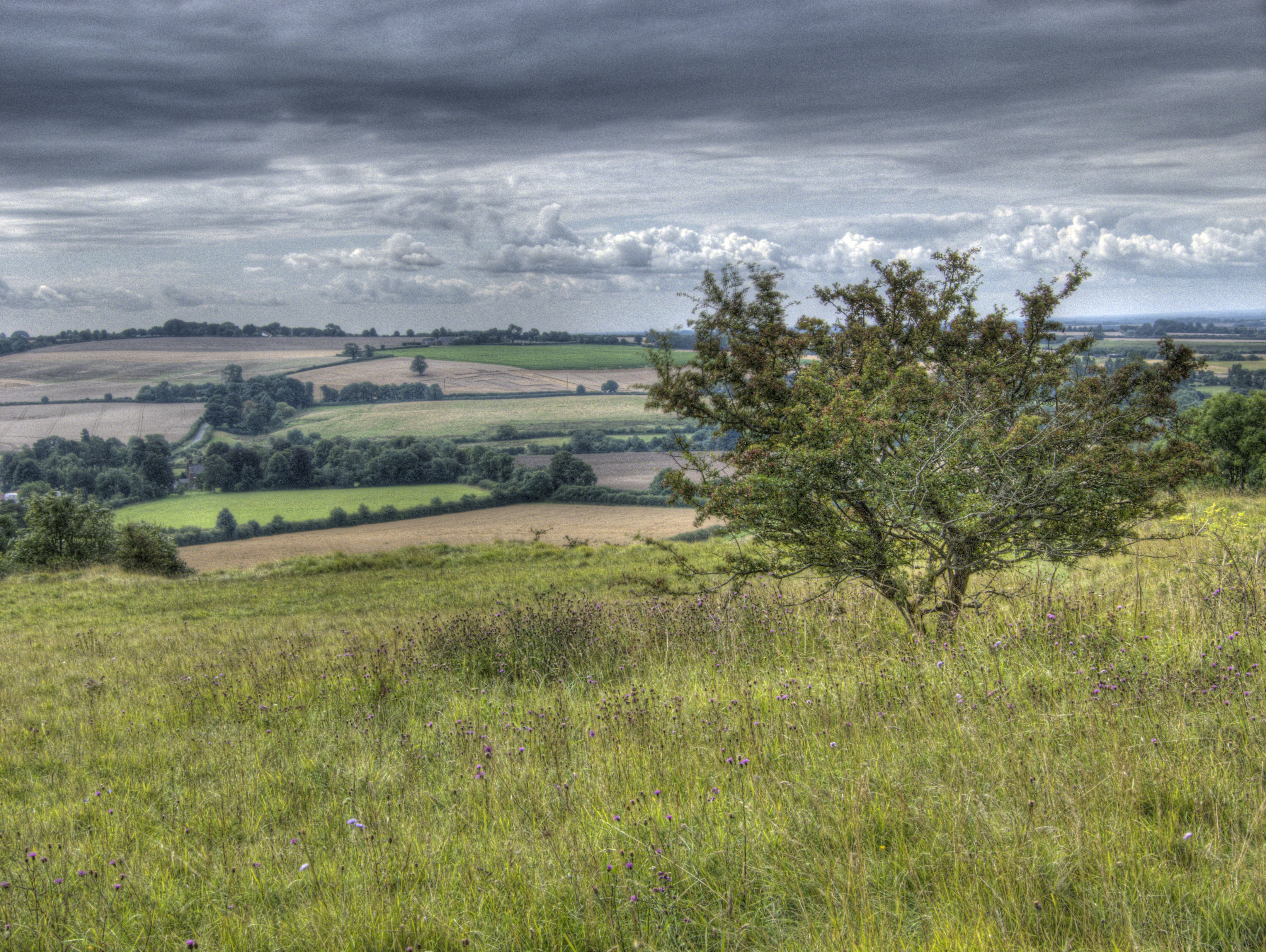 View of the Lincolnshire Wolds landscape from Red Hill Reserve, UK. HDR tonemapping.